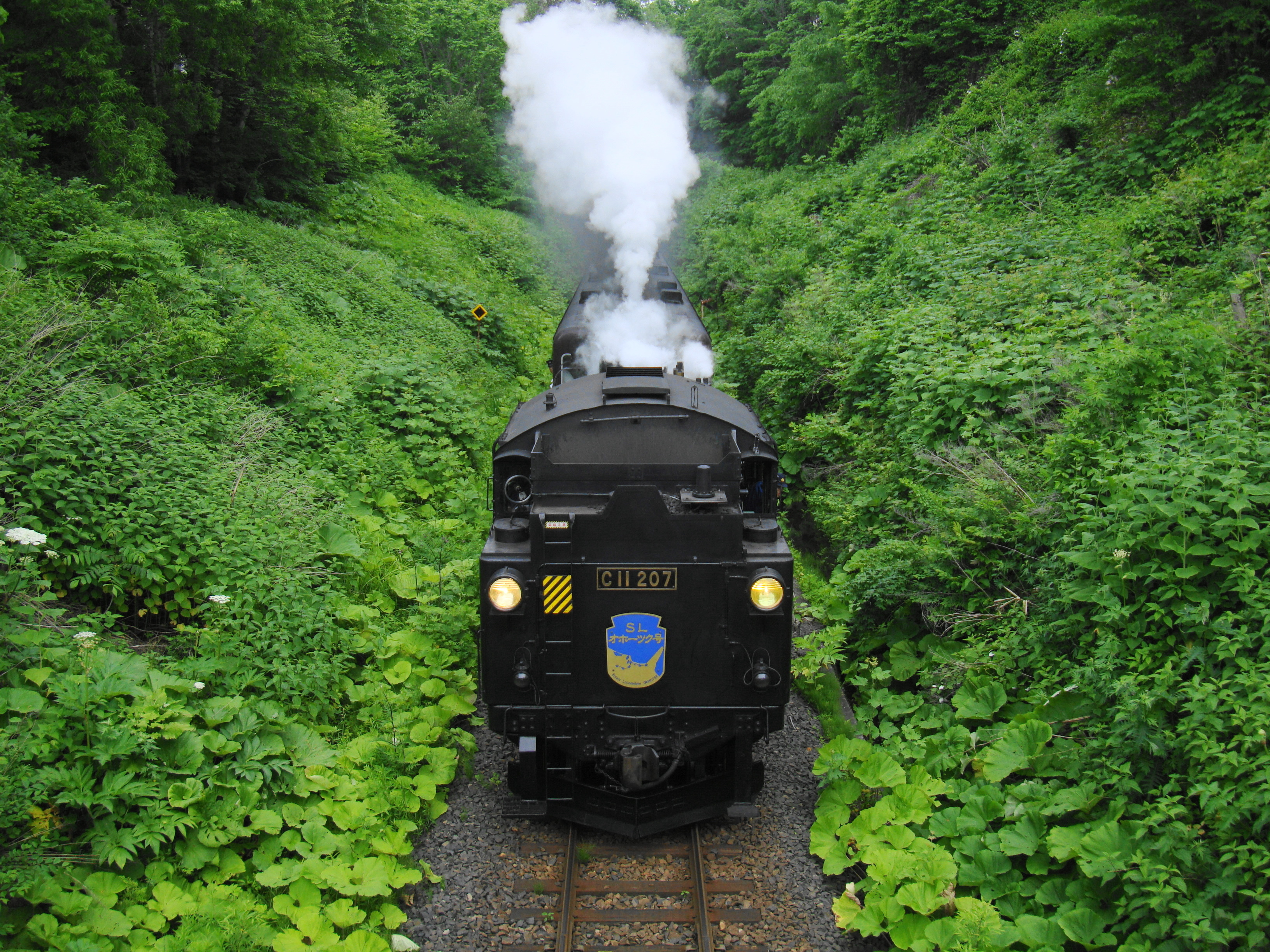 SL Okhotsk